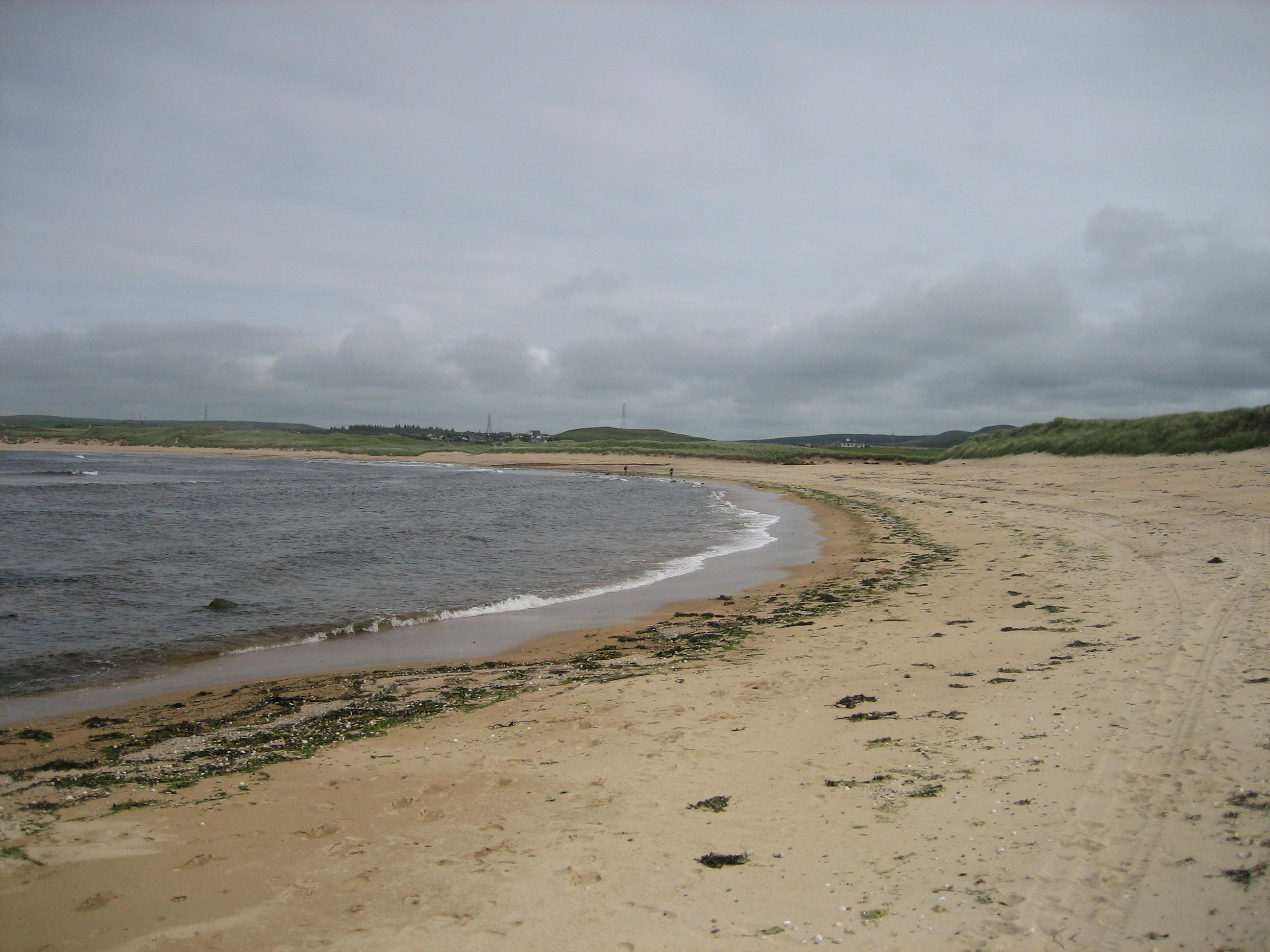 Picture across Sandside Bay, near Thurso, Caithness, taken August 2006. Beach has warning signs indicating presence of radioactive particles.